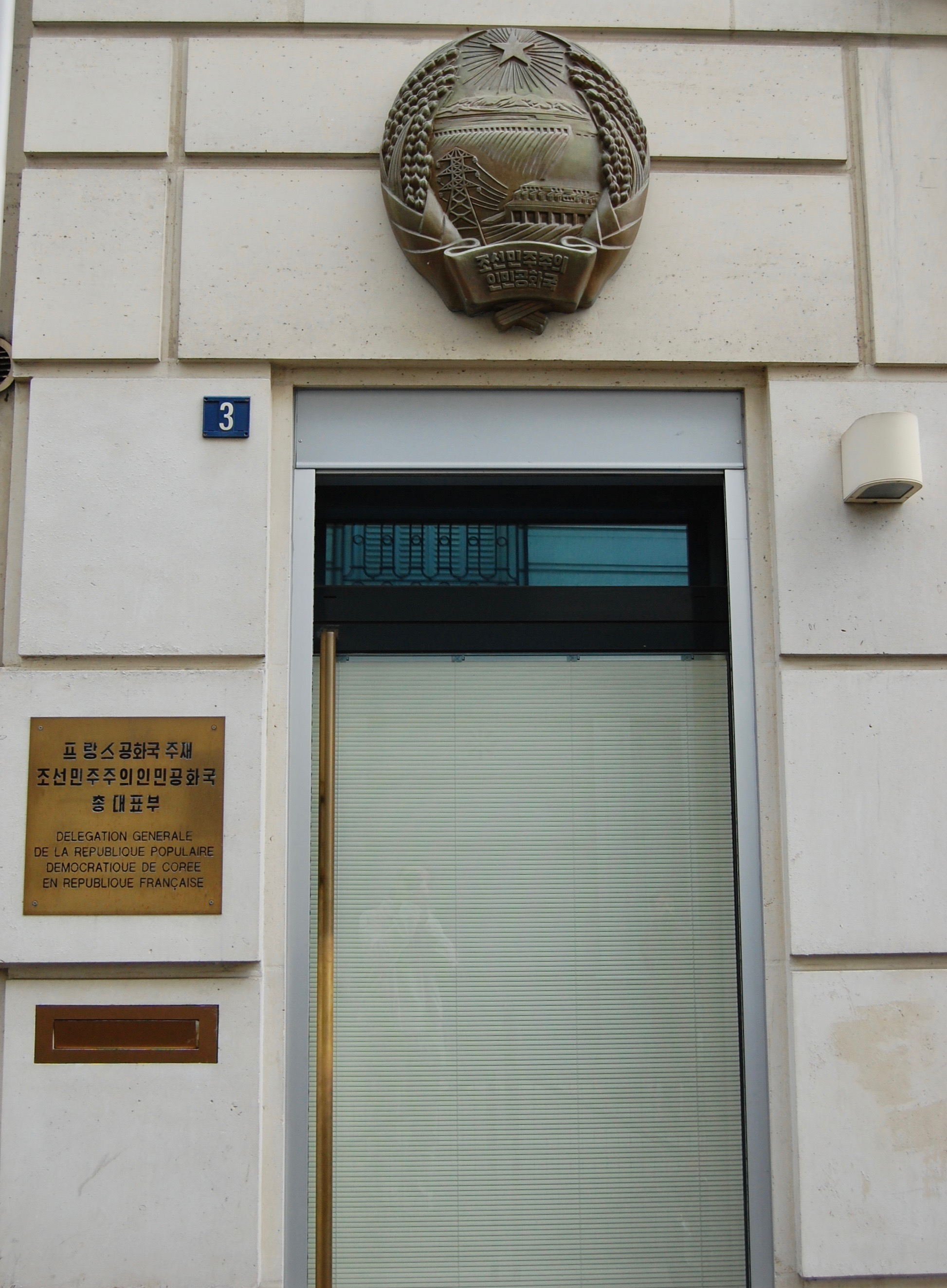 Diplomatic delegation of the Democratic People’s Republic of Korea (North Korea) in France, 3 rue Asseline, Paris.